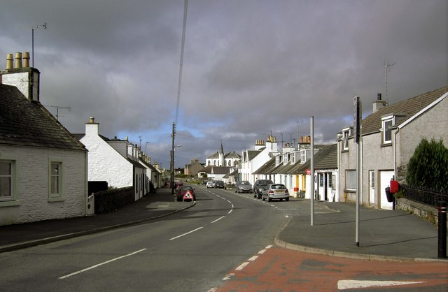 Main Street, Crossmichael. Looking down Crossmichael Main Street in the direction of the church.